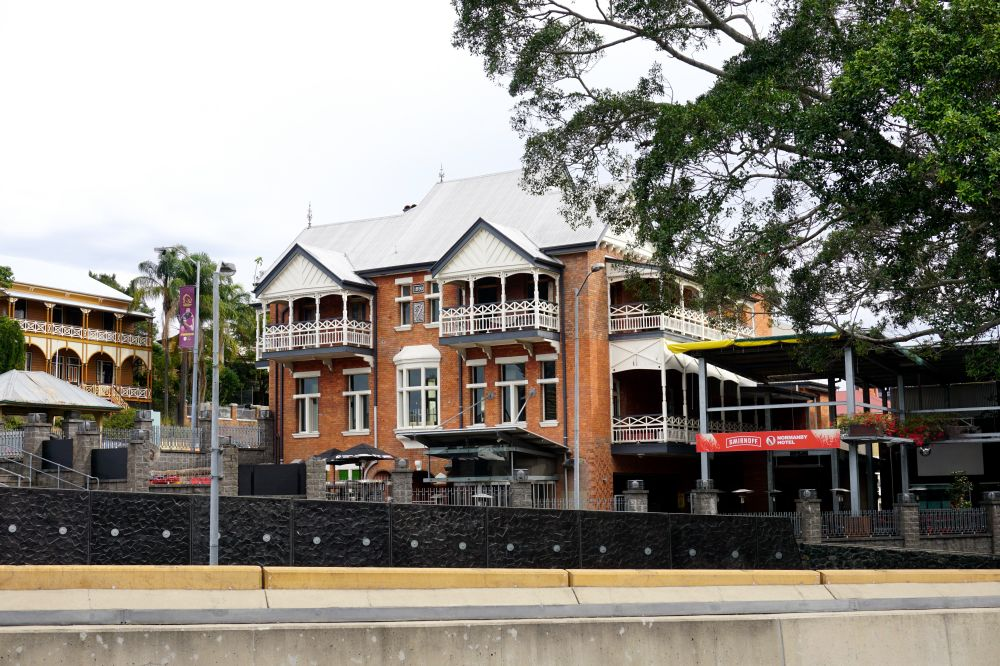 Normanby Hotel from E (2016)